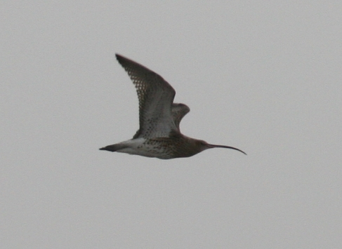 Numenius arquata flying (Terschelling, NL)